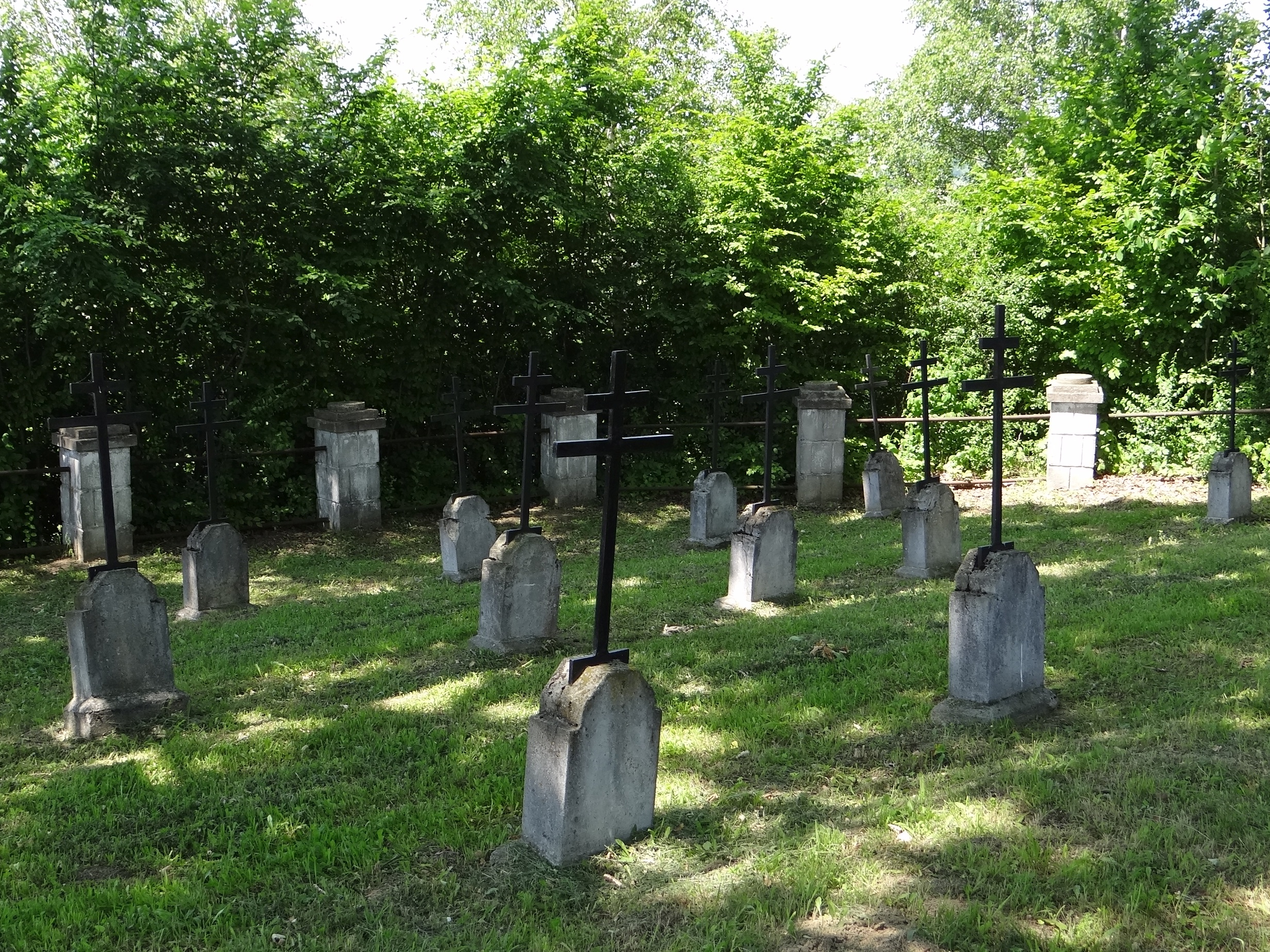 World War I Cemetery nr 163 in Tuchów